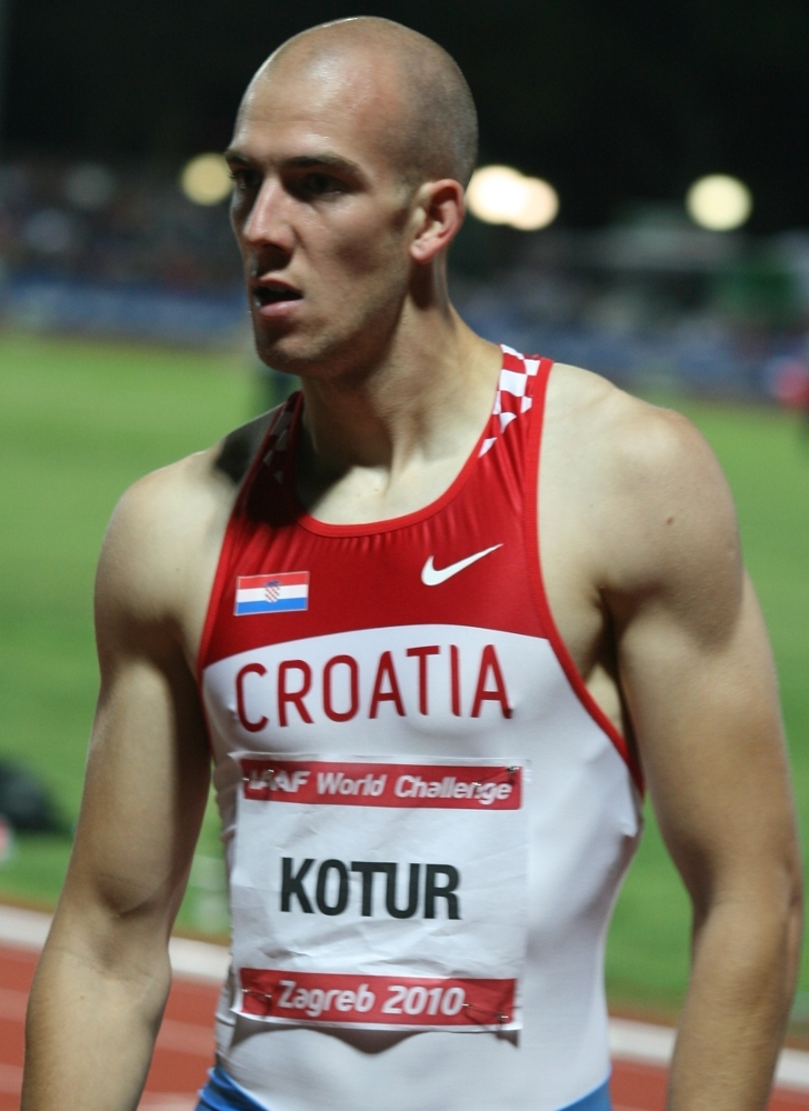 Milan Kotur in Zagreb, 2010